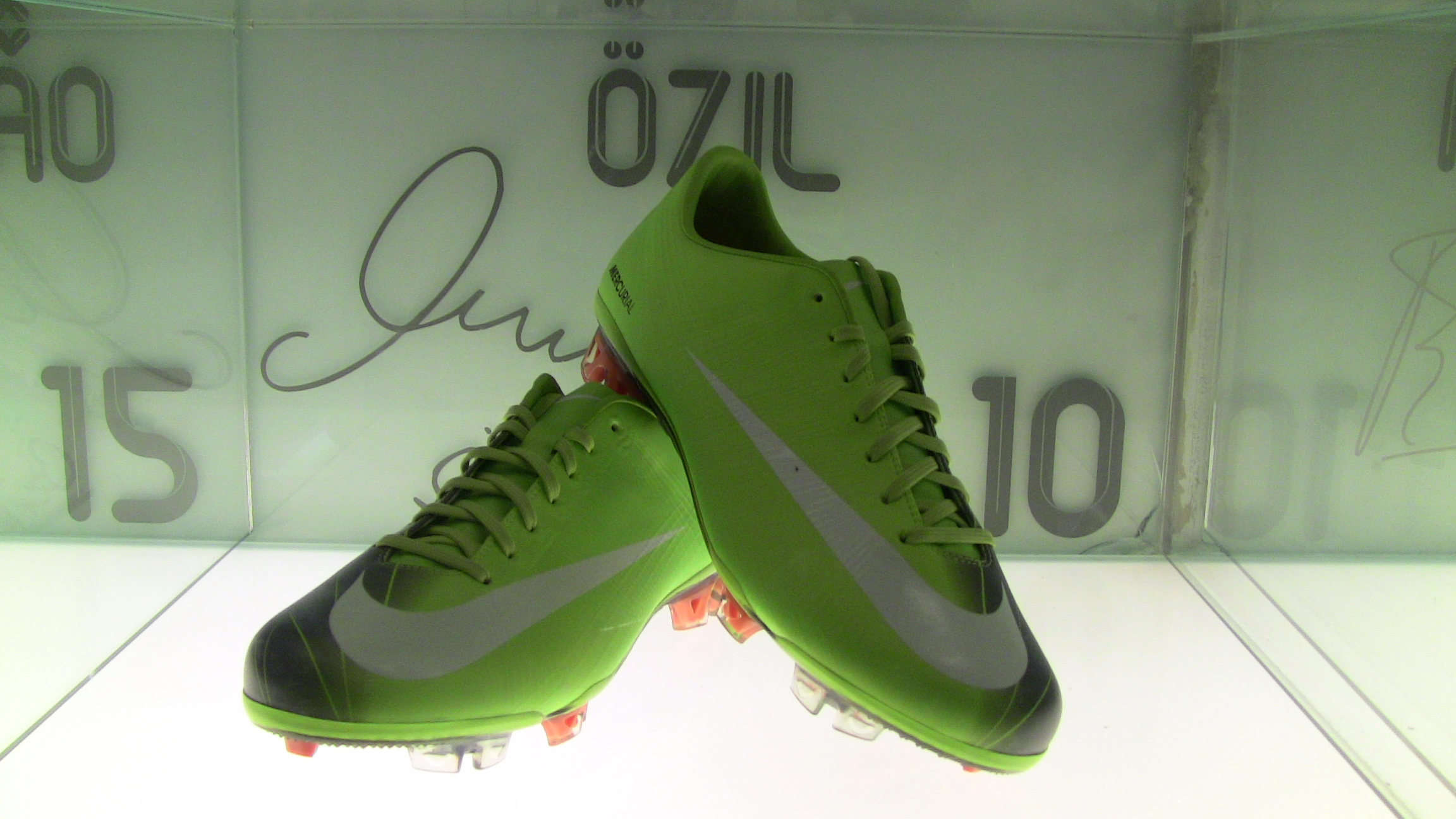 Mesut Ozil Boots Santiago Bernabeu